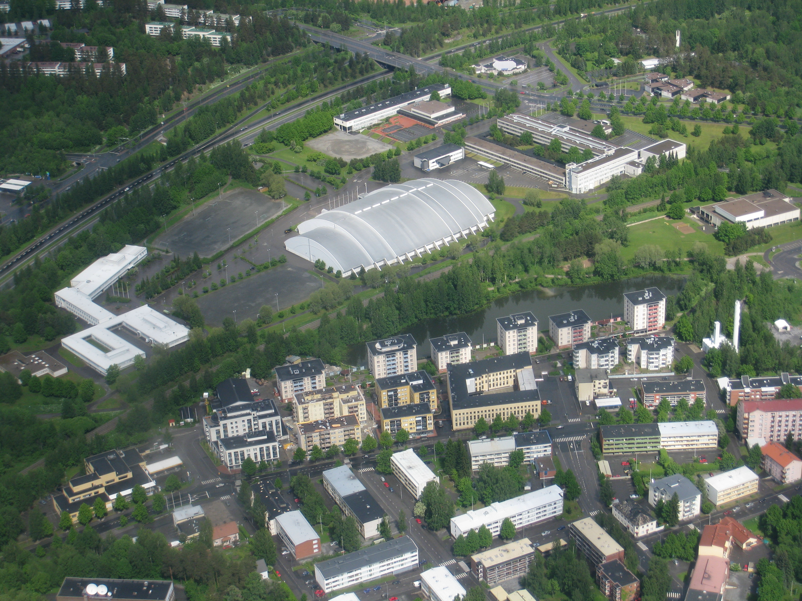 Niirala in Kuopio, Finland from air